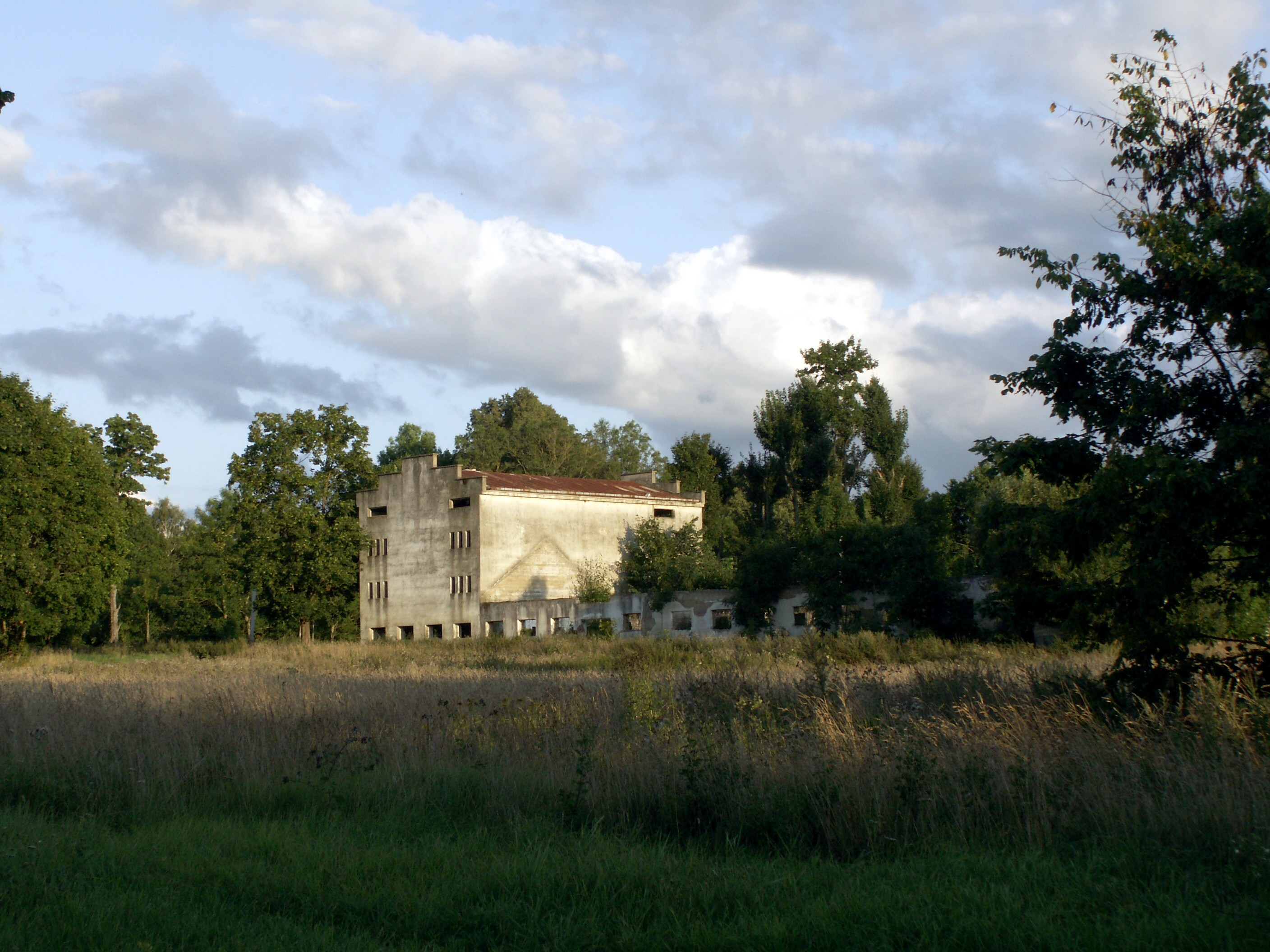 Kairiškiai water power station, Akmenė district, Lithuania